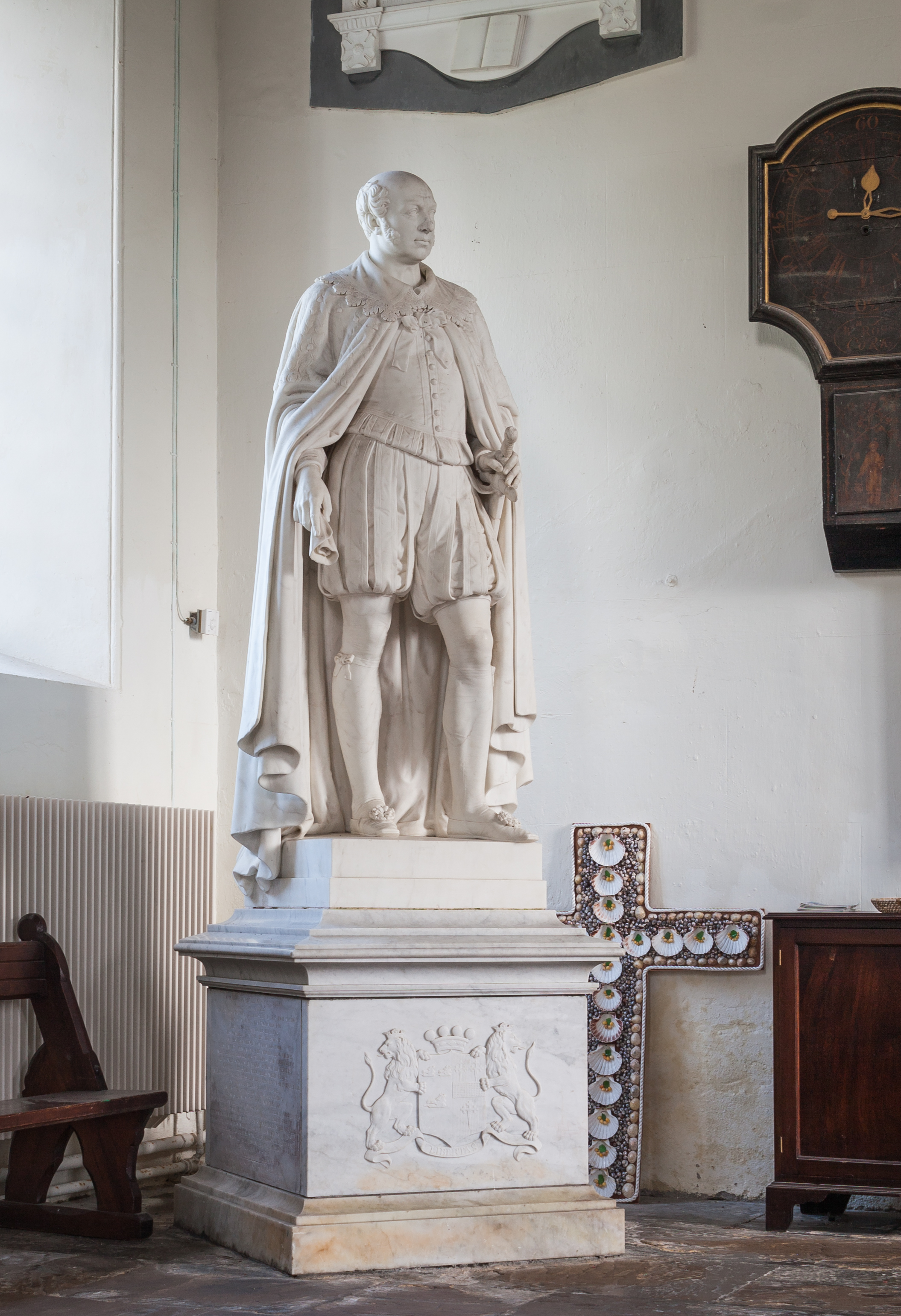 Statue of John Evans Freke, 6th Baron Carbery (1765–1845), created by Guillaume Geefs in 1848. Signature: Gme Geefs statuaire de S M Le Roi des Belges, Bruxelles le 20 Juillet 1848.